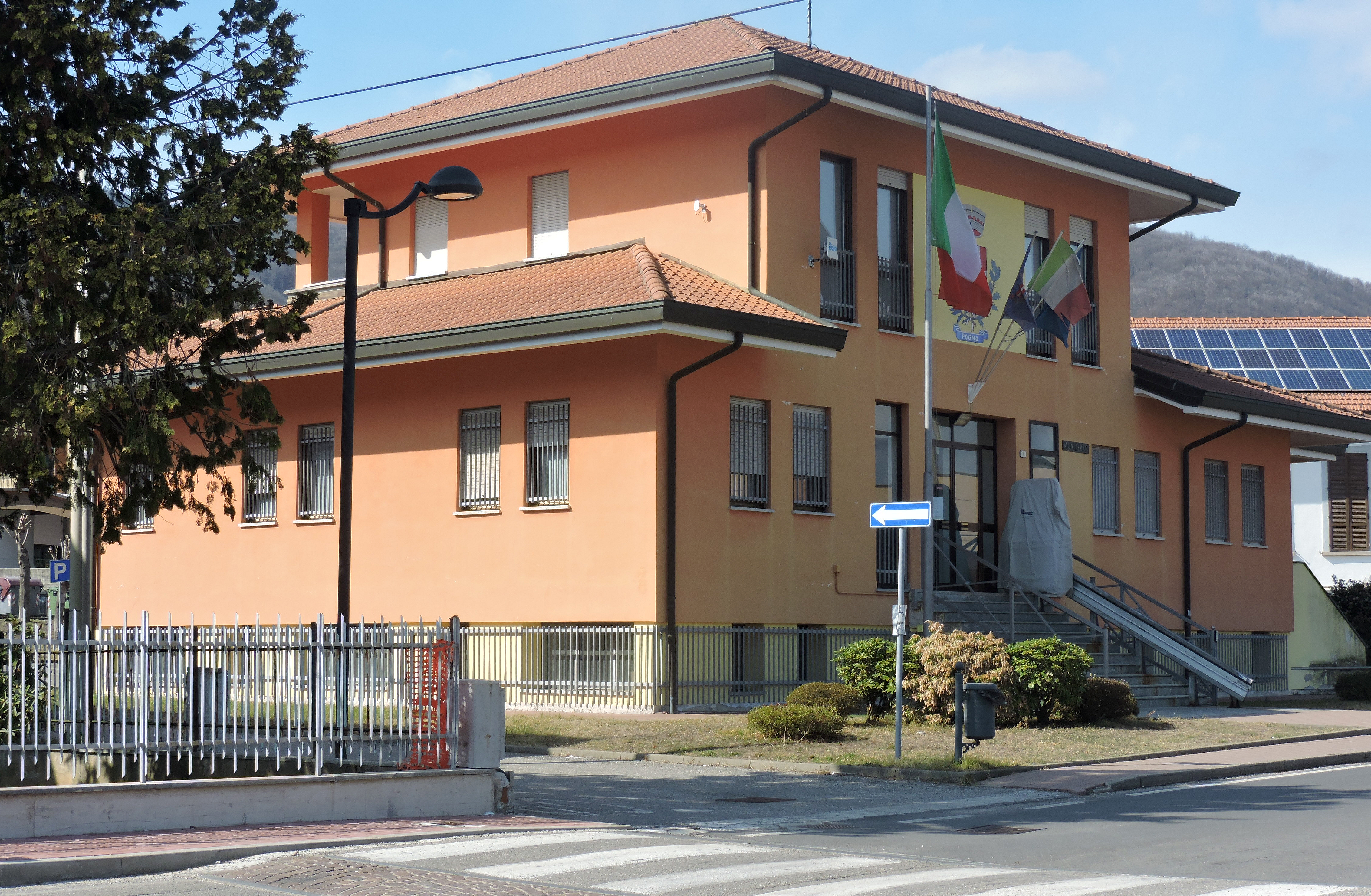 Town hall of Pogno (NO, Italy)